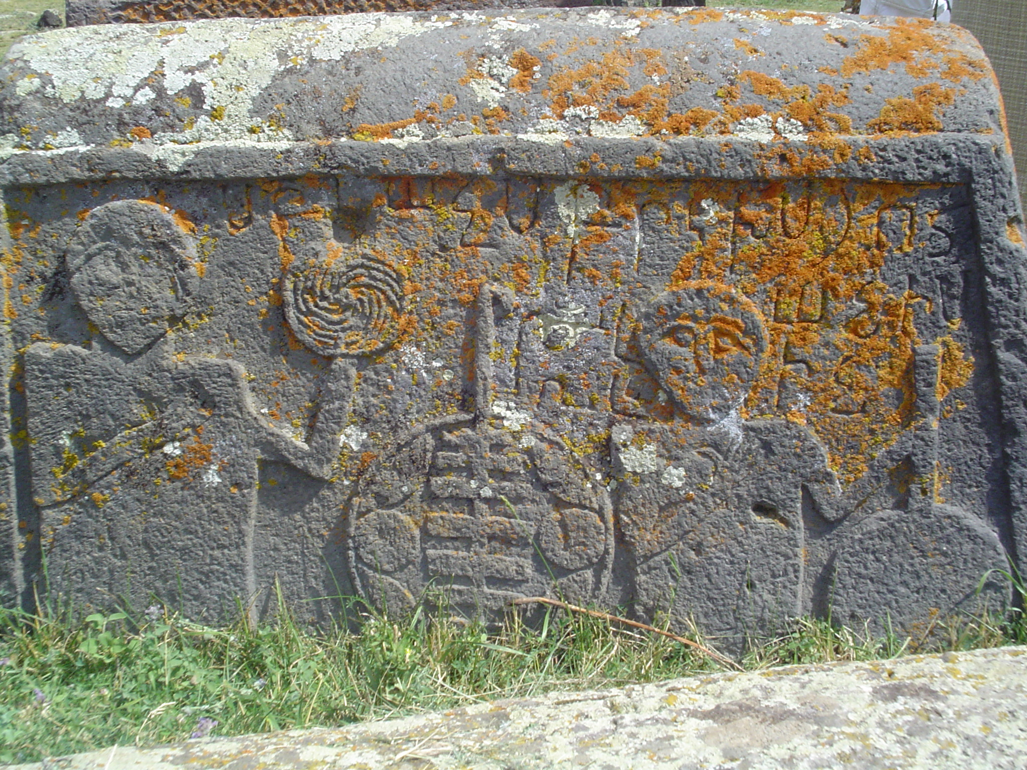 Noraduz xachkar сemetery. Tombstone